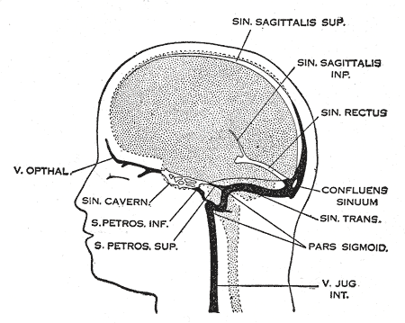 Cranial sinuses, with black pointer lines and source smudges.